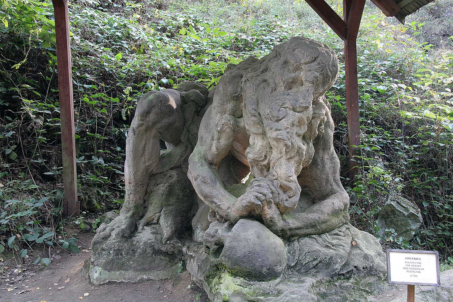 Holy man sculpture Onufrius in forrest by Žírec village, 3 km from Kuks, part of Kuks spa park.